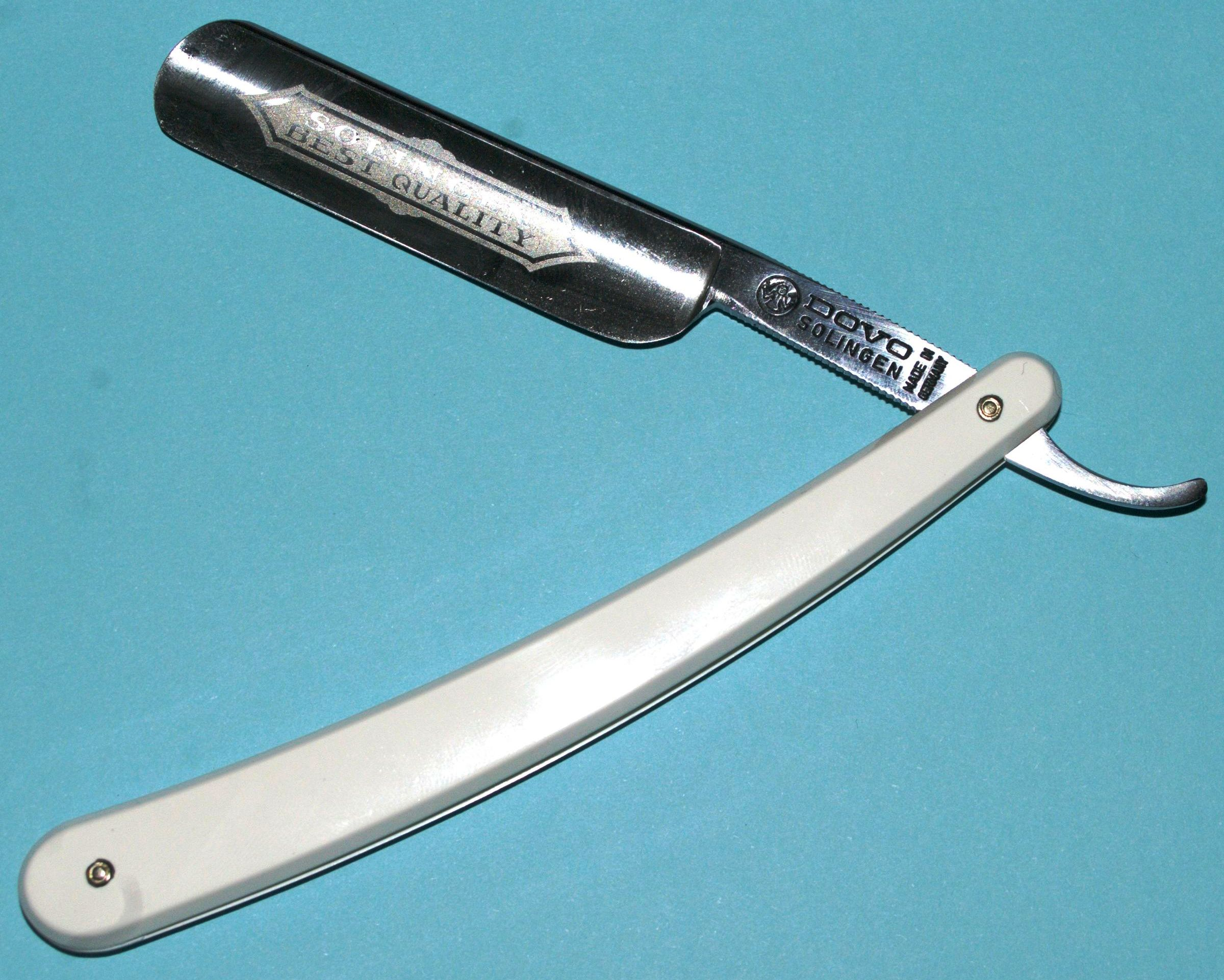 Straight Razor cropped